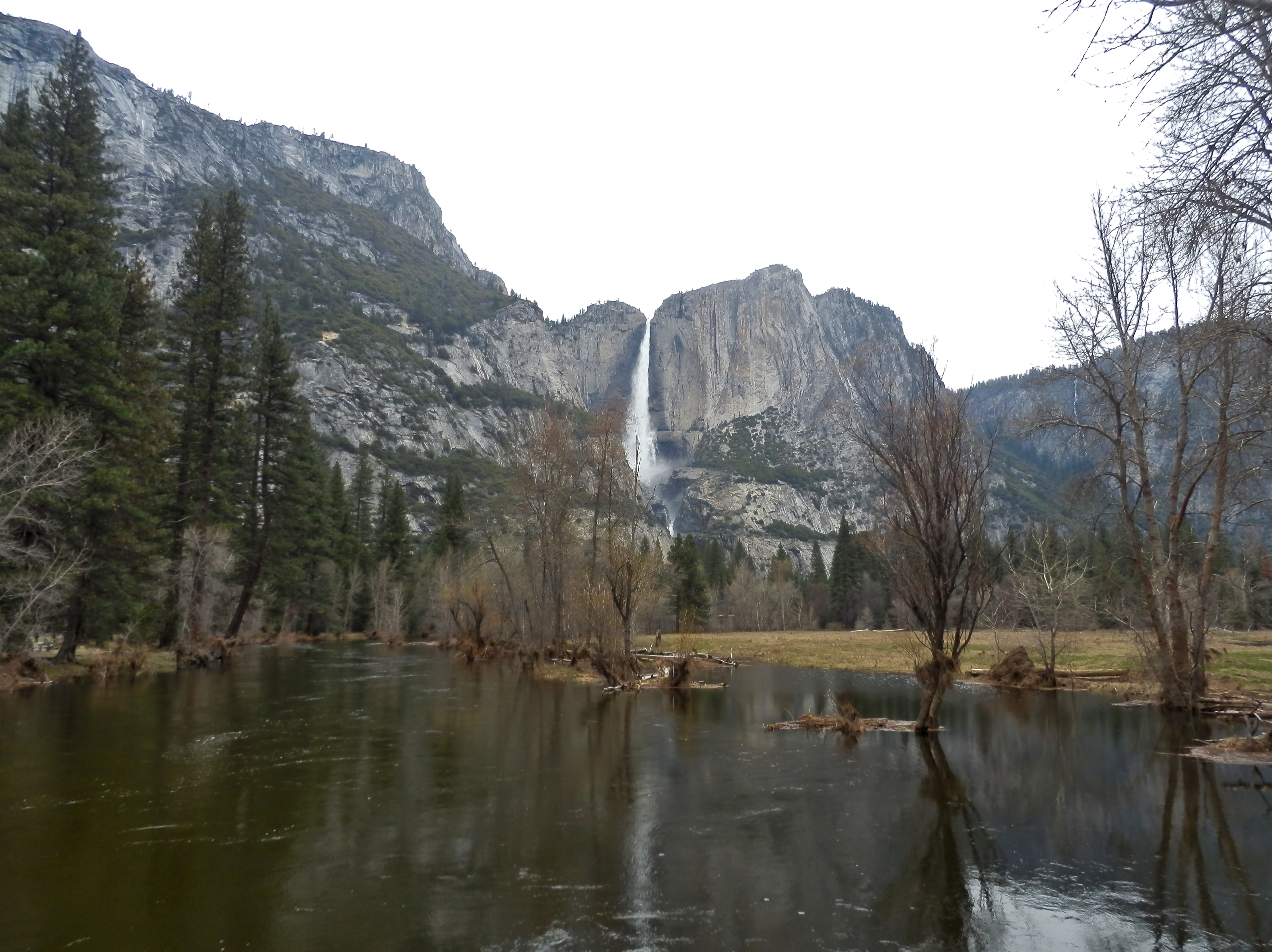 Yosemite Nationalpark Valley